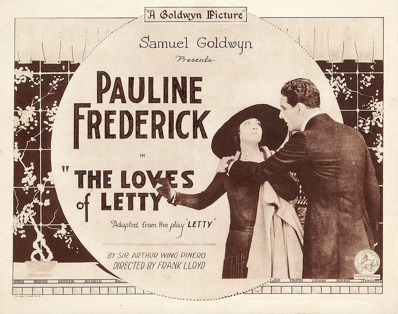 The Loves of Letty is a 1919 American silent drama film produced and distributed by Samuel Goldwyn and directed by Frank Lloyd. This is a lobby card for the film.